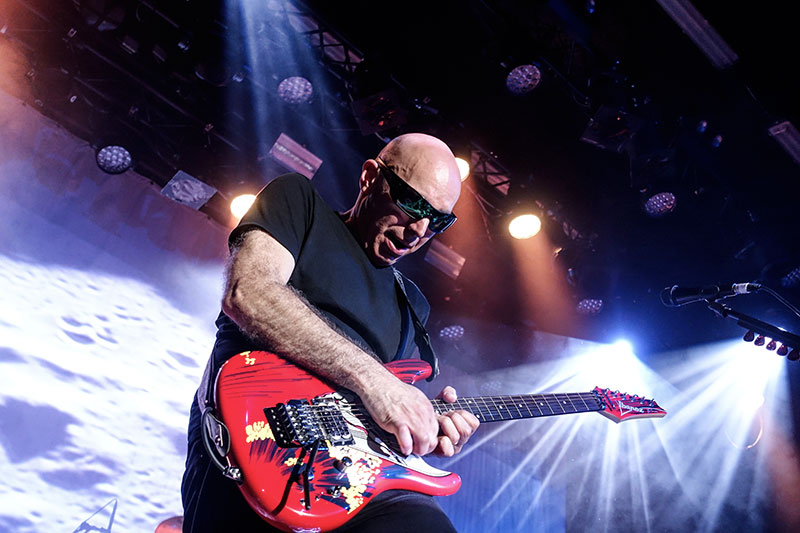 Joe Satriani in Aarhus, Denmark 2016